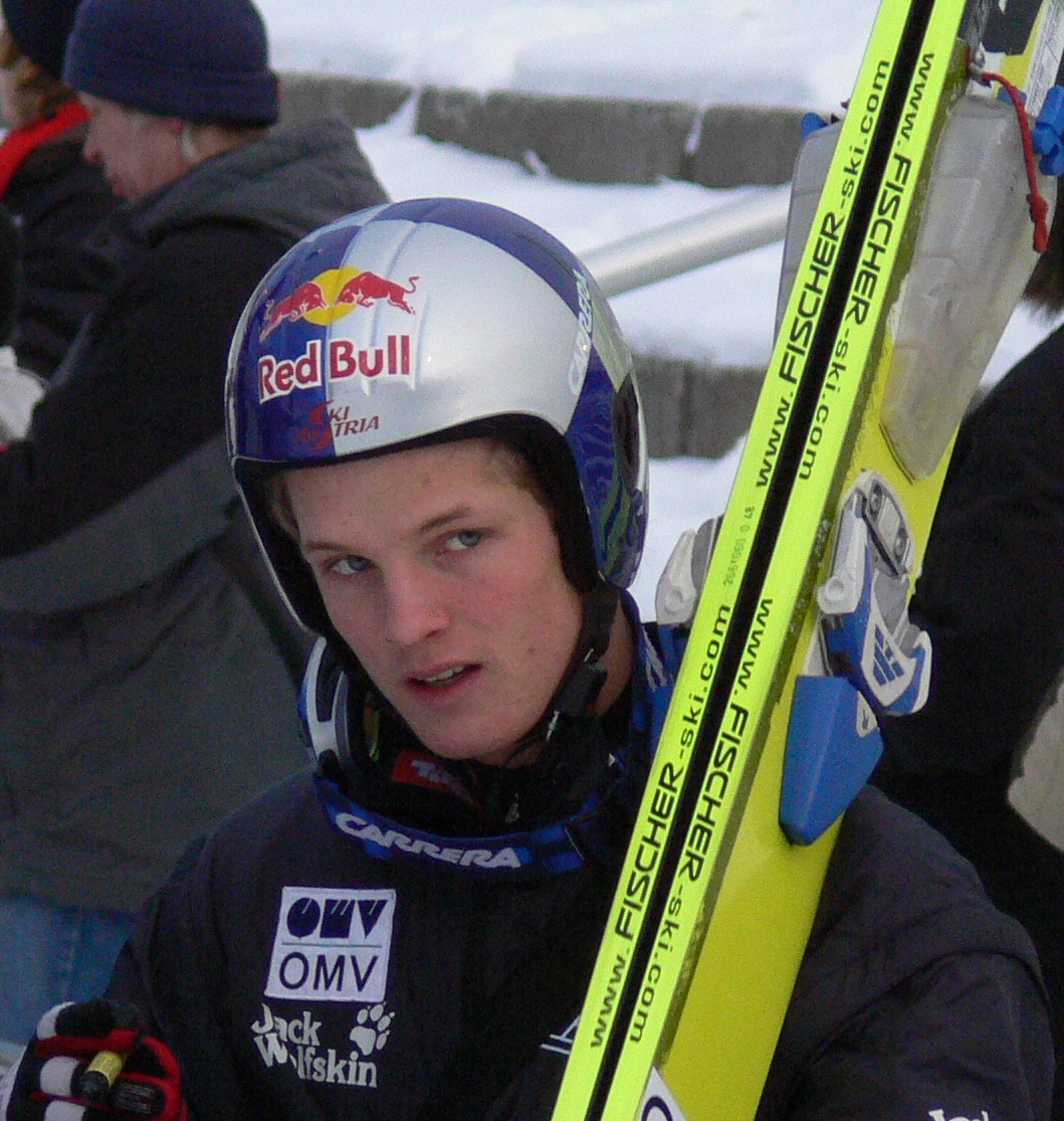 Thomas Morgenstern, taken during the 2006 World Cup Ski Jumping event in Holmenkollen.